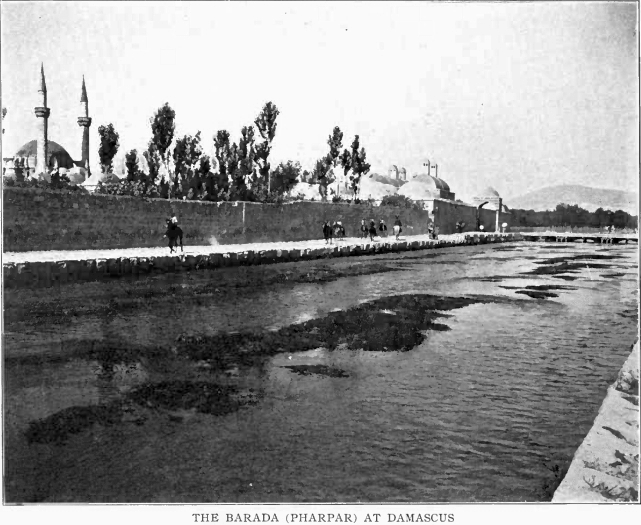 Damascus 1906